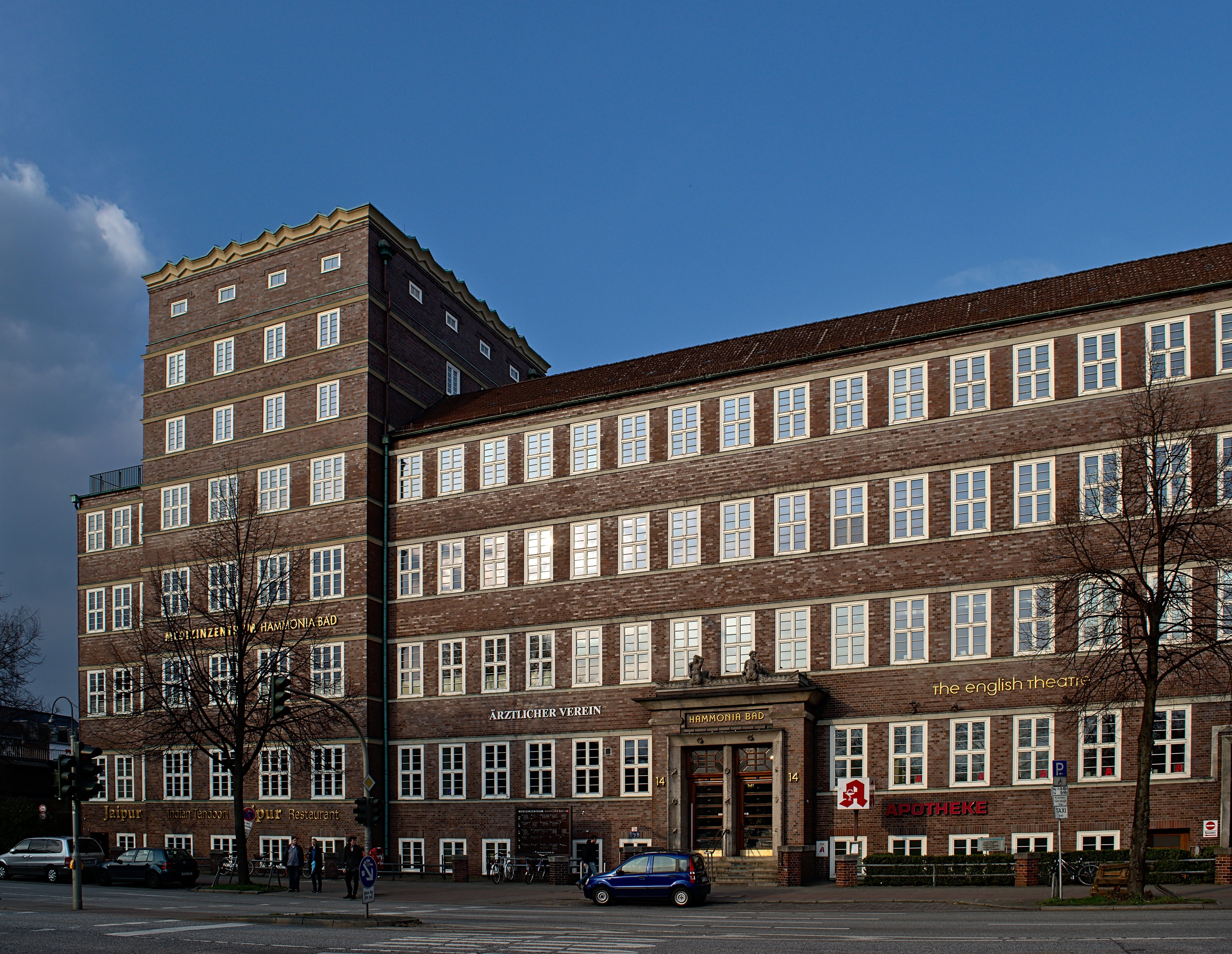 The Hammonia-Bad, a former public bath and office building, now hosting a restaurant, numerous doctor's practices, a pharmacy, and the English Theatre of Hamburg, on Lerchenfeld 14 (centre) and 18 (where the tower-like structure is), Hamburg. This is a photograph of an architectural monument. This is a photograph of an architectural monument.